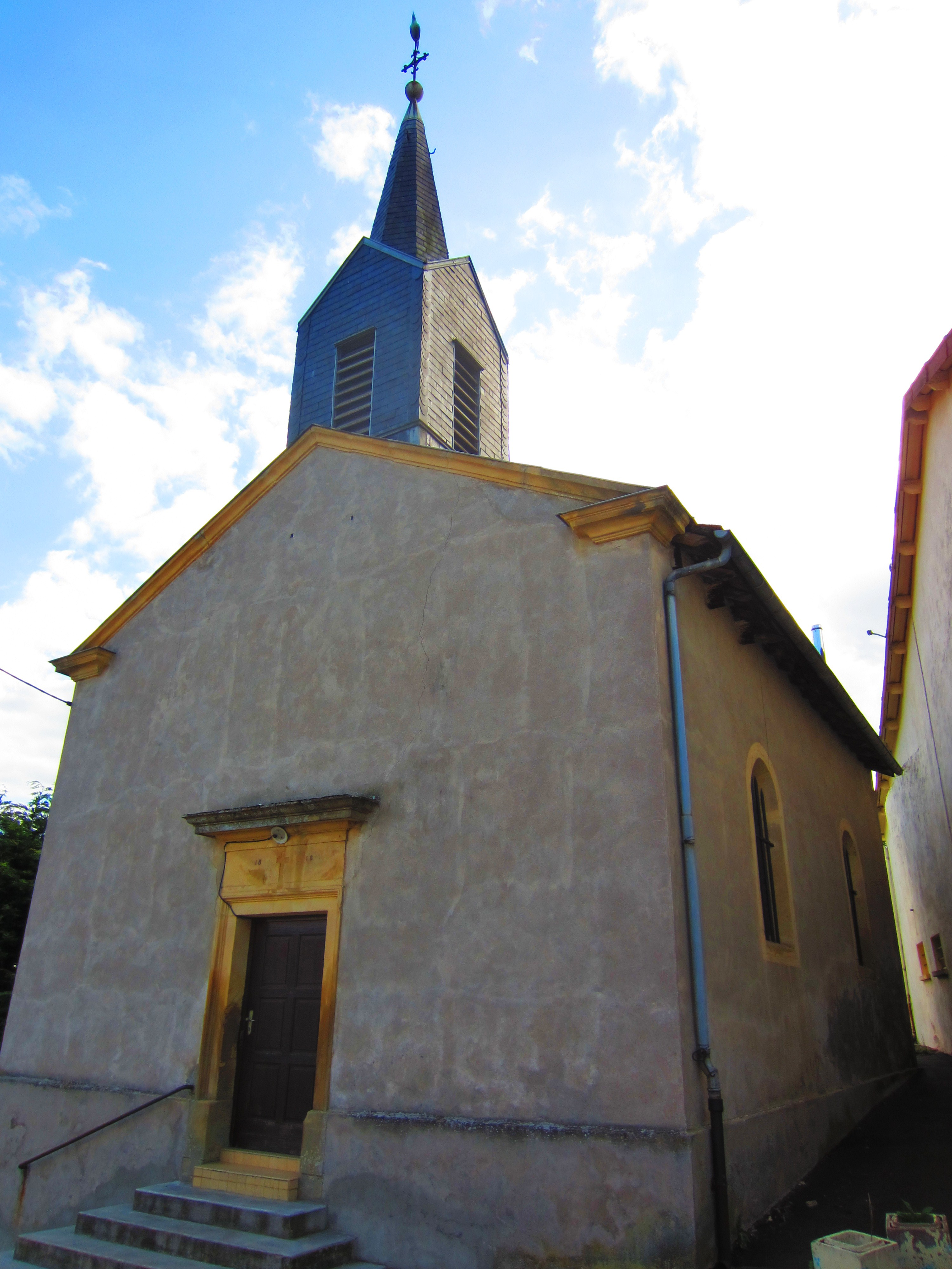 Helling chapel